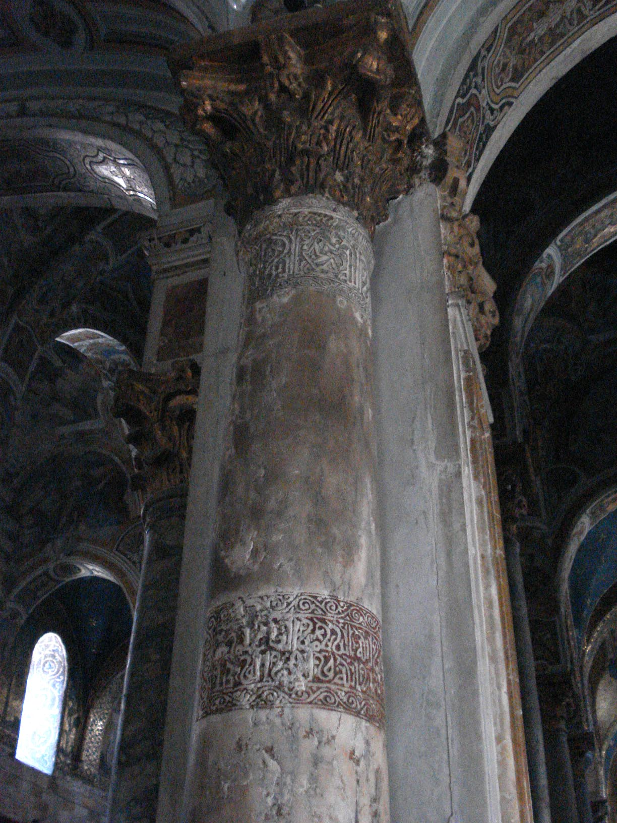 Column with arabian writings (Martorana)